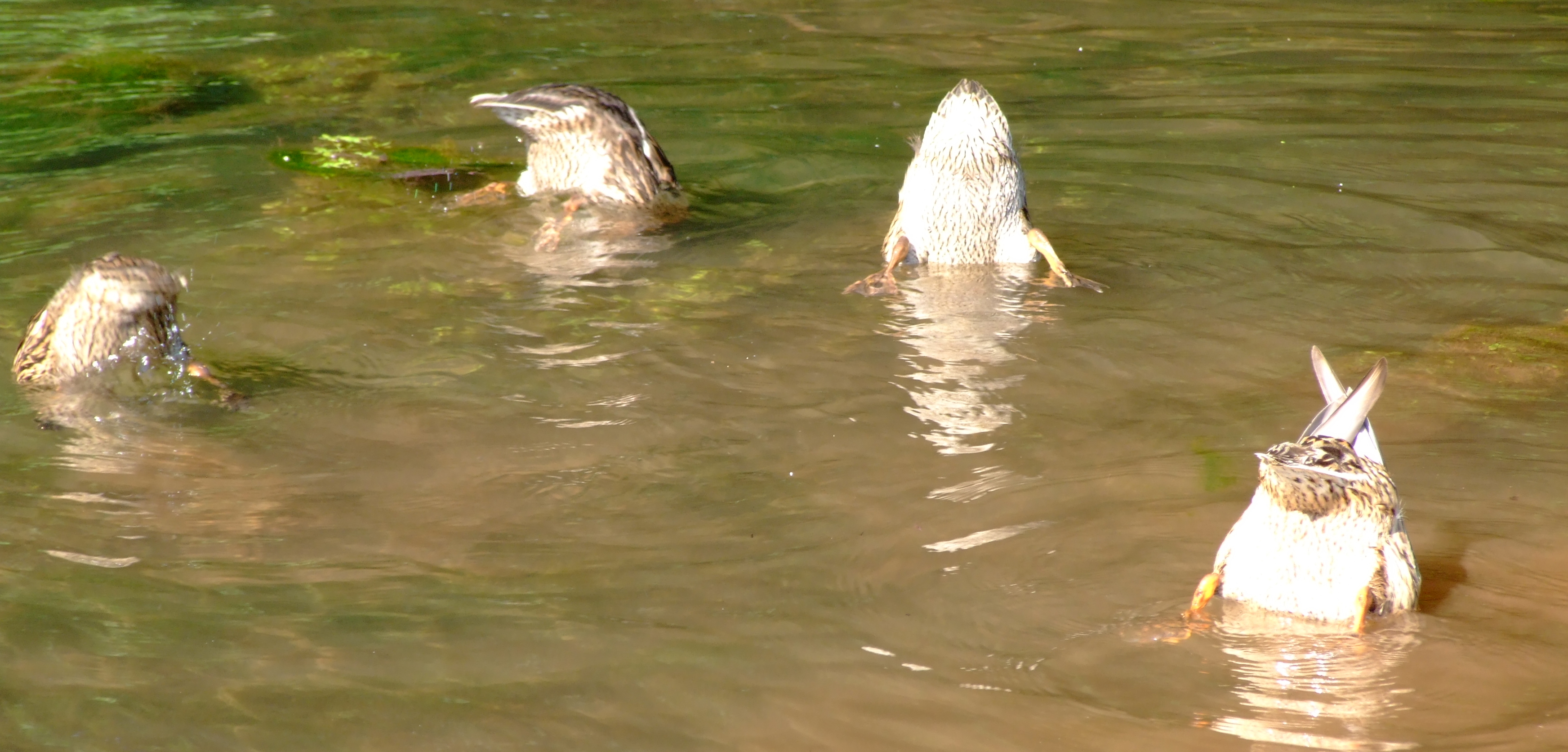 Synchronized diving ducks